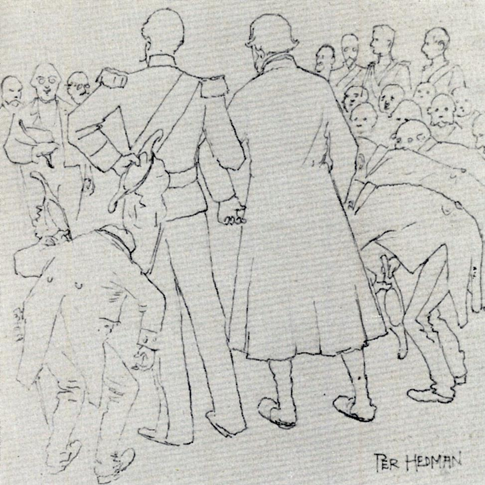 King Oscar II of Sweden and Norway (left) with Dales politician Liss Olof Larsson, both face bowing and scraping